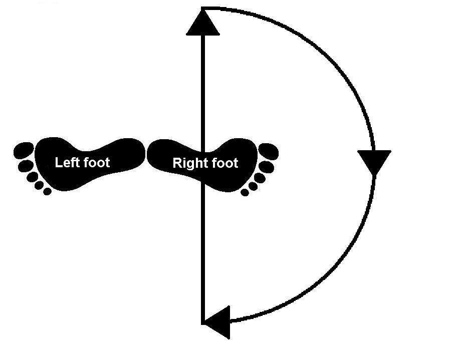 priciple of rond de jambe par terre en dehors (ballet movement)